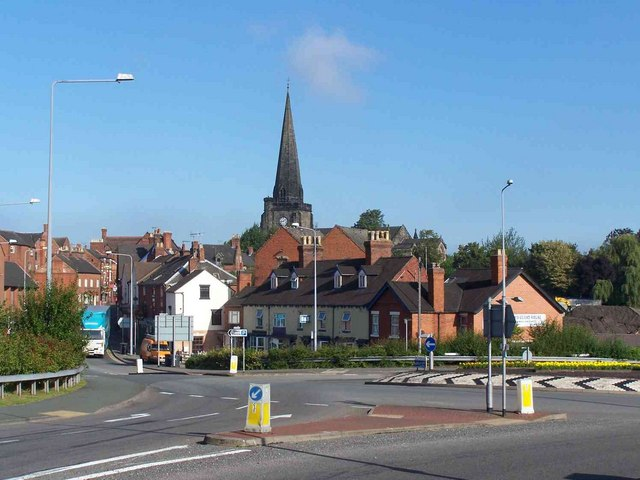 Bridge Street Uttoxeter, Staffordshire, England, with the tower and spire of St Mary the Virgin parish church in the background